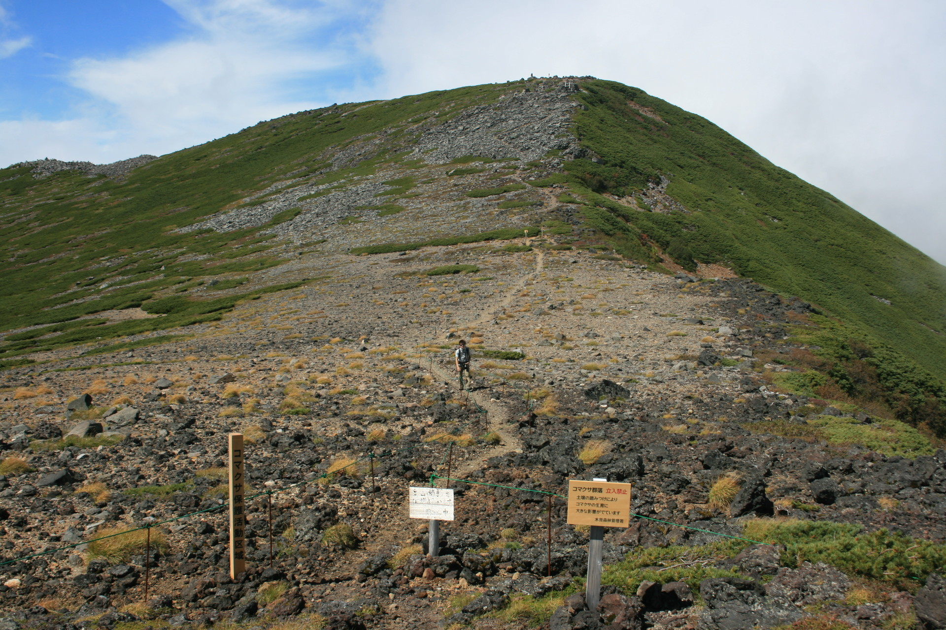 Protective zone of Dicentra peregrina in Mount Ontake, Japan.